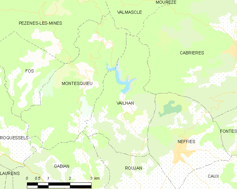 Map commune FR insee code 34319.png - Vailhan